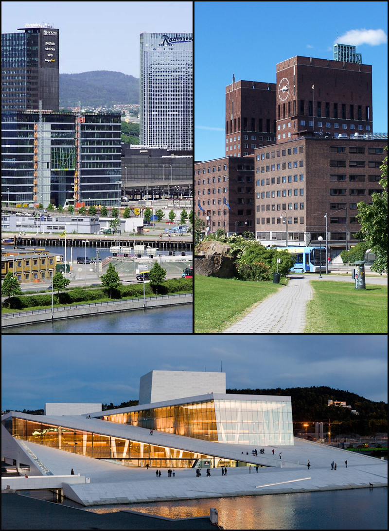 The new Opera House in Oslo